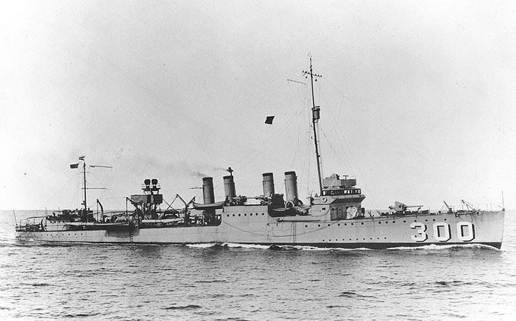 The U.S. Navy destroyer USS Farragut (DD-300) underway, circa in 1925.